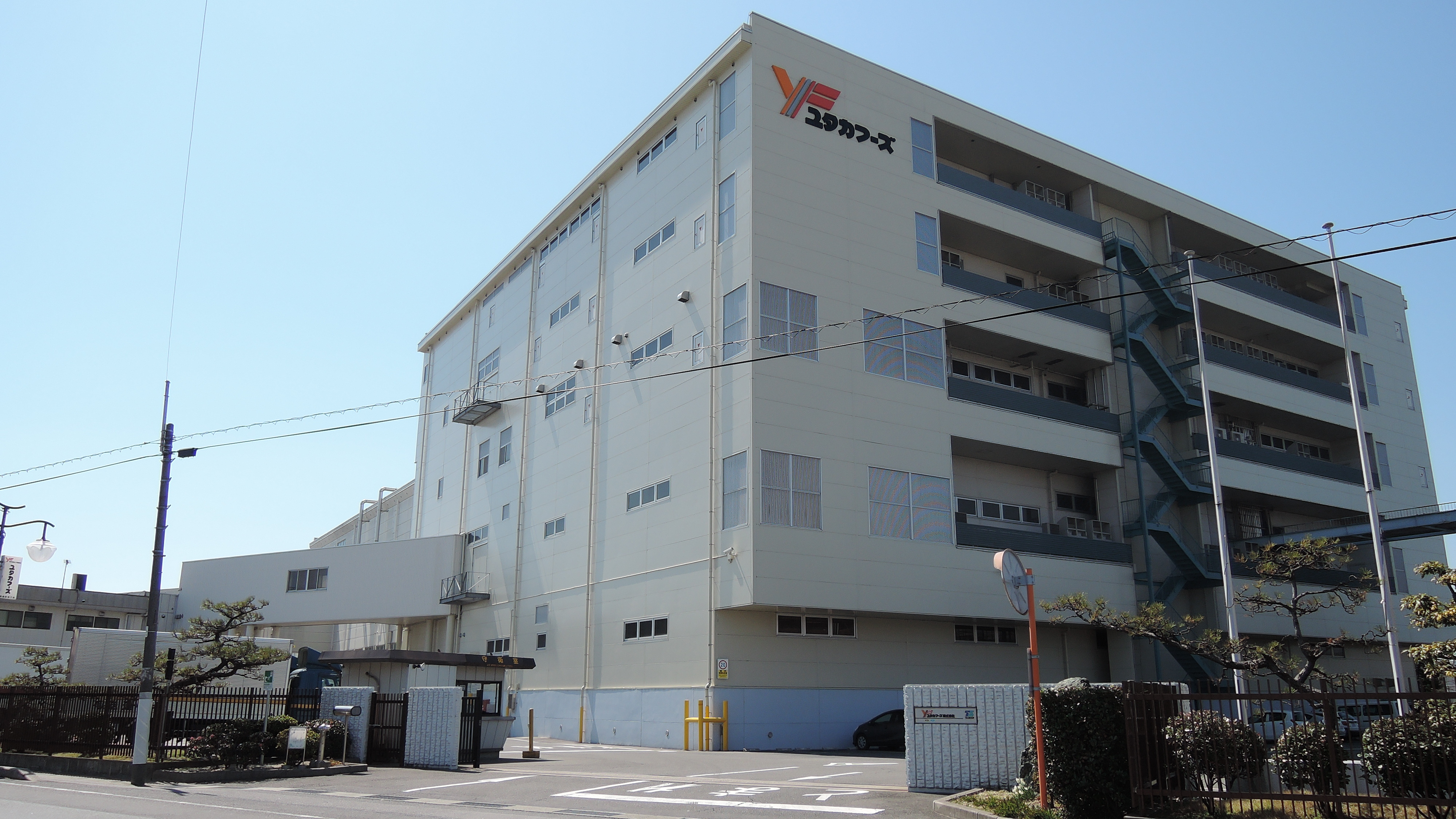 Headquarters of Yutaka Foods Corporation,Aichi prefecture,Japan